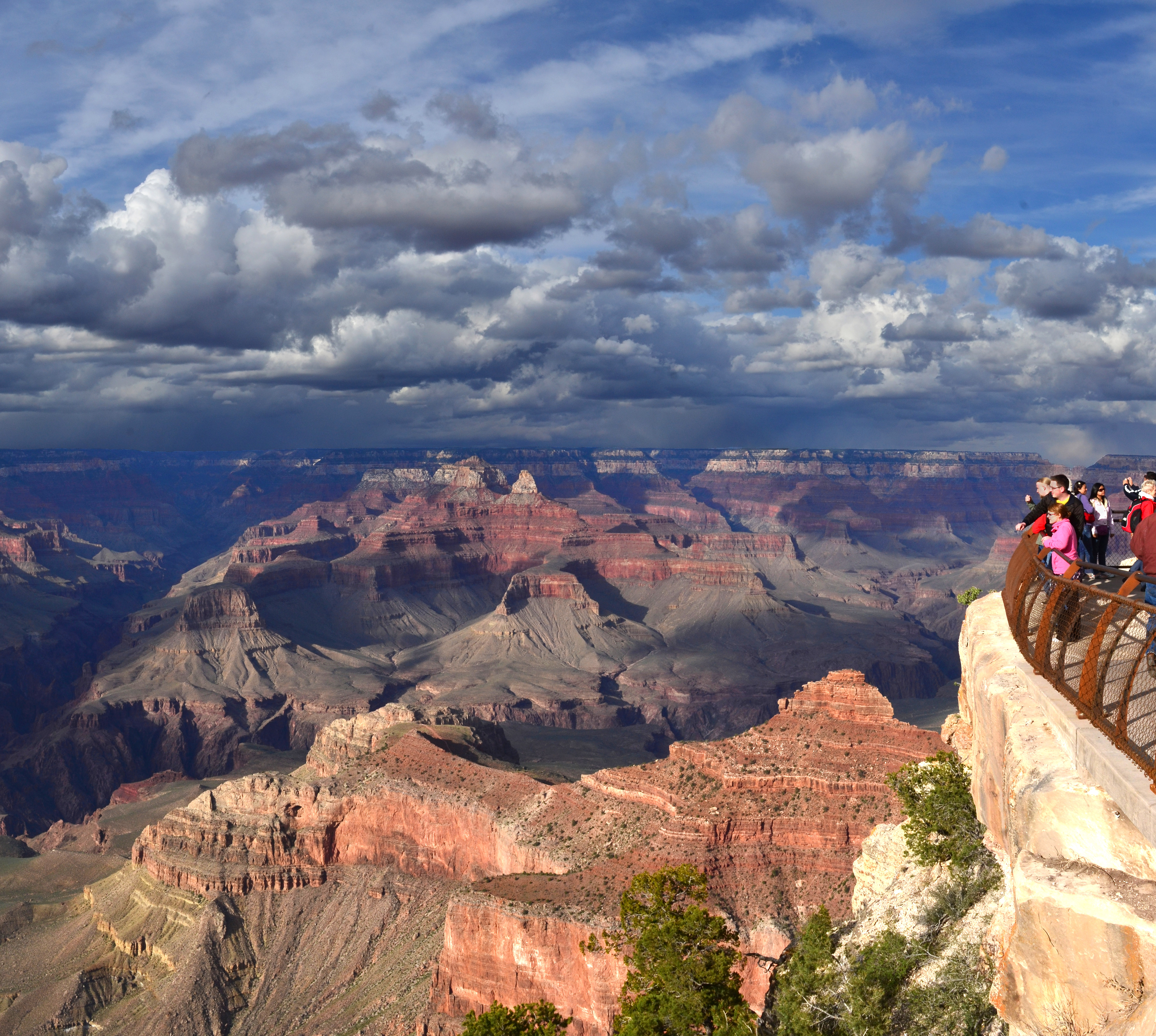 Canyon View from the Mather Point